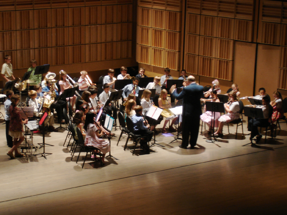 School Orchestra of an Elementary School in the United States